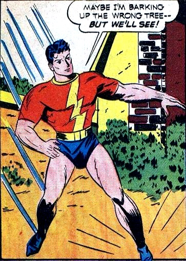 Comic page detail from Startling Comics #10 (Sep. 1941), featuring Captain Future in "Hi, Grace! My, but you're looking bored..."][The Snatched Scientists)